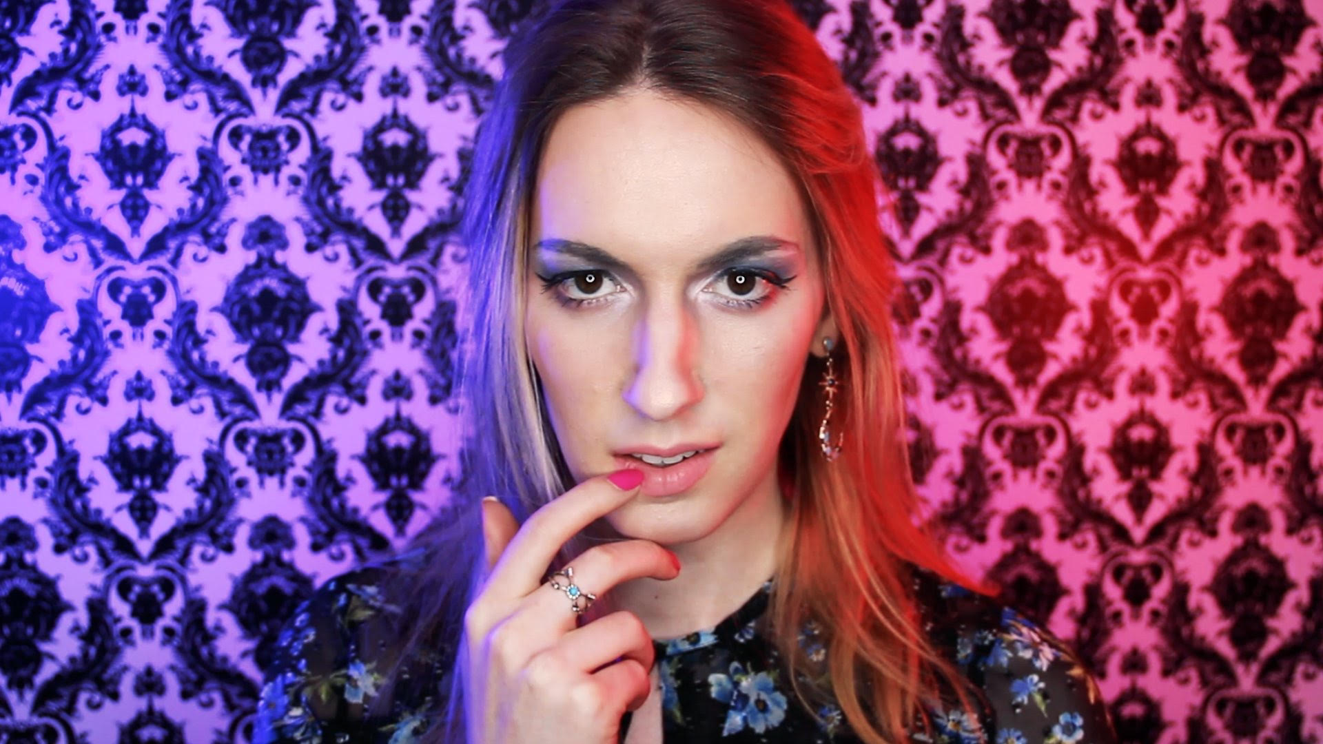 YouTube personality Natalie Wynn